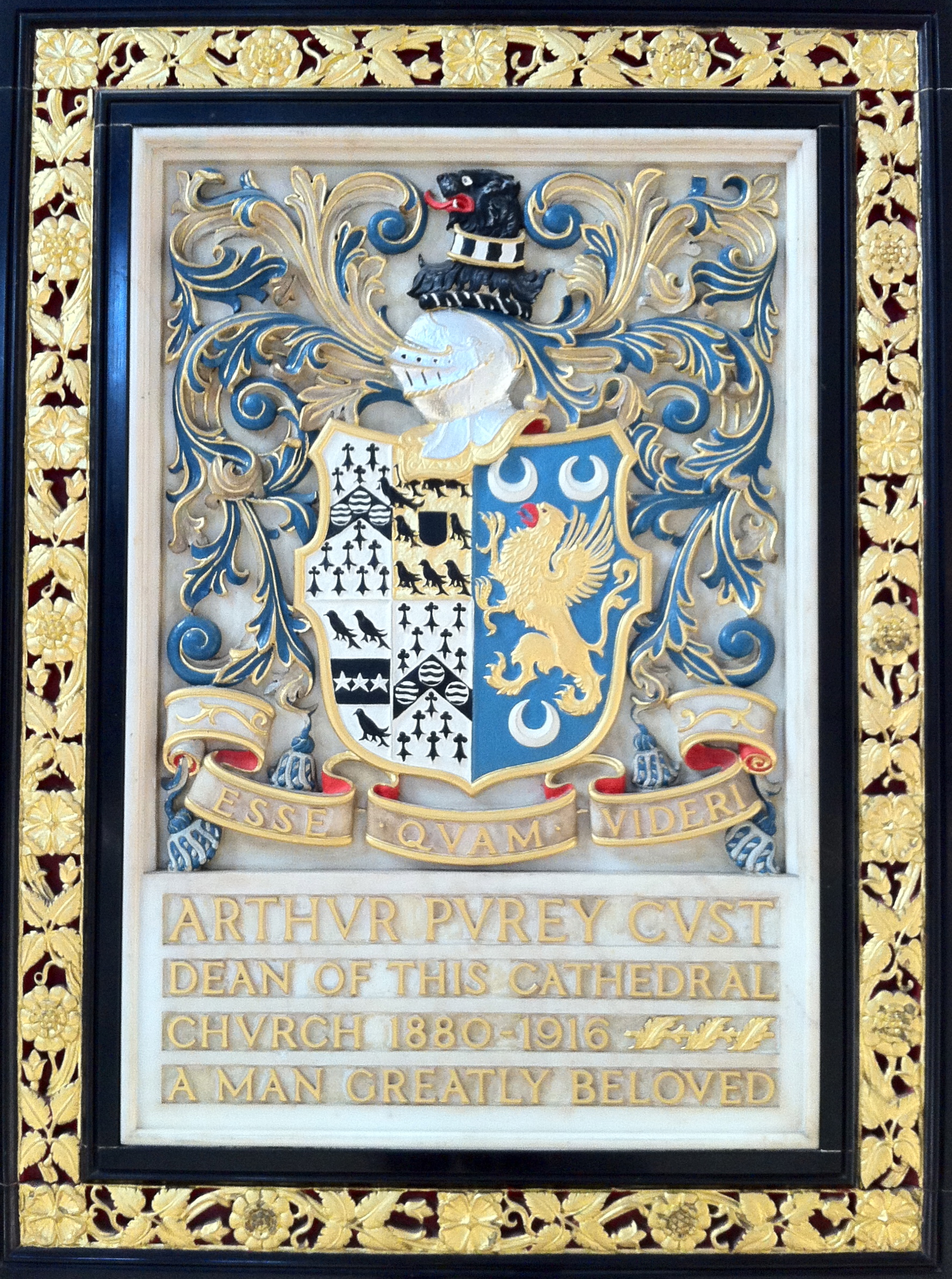 Memorial to Arthur Percival Purey-Cust in the south transept of York Minster. Arms quarterly of 4 (overall a martlet for difference): 1&4: Cust 2: Brownlow 3: Argent, on a fess between three martlets sable as many mullets of the first (Pury).